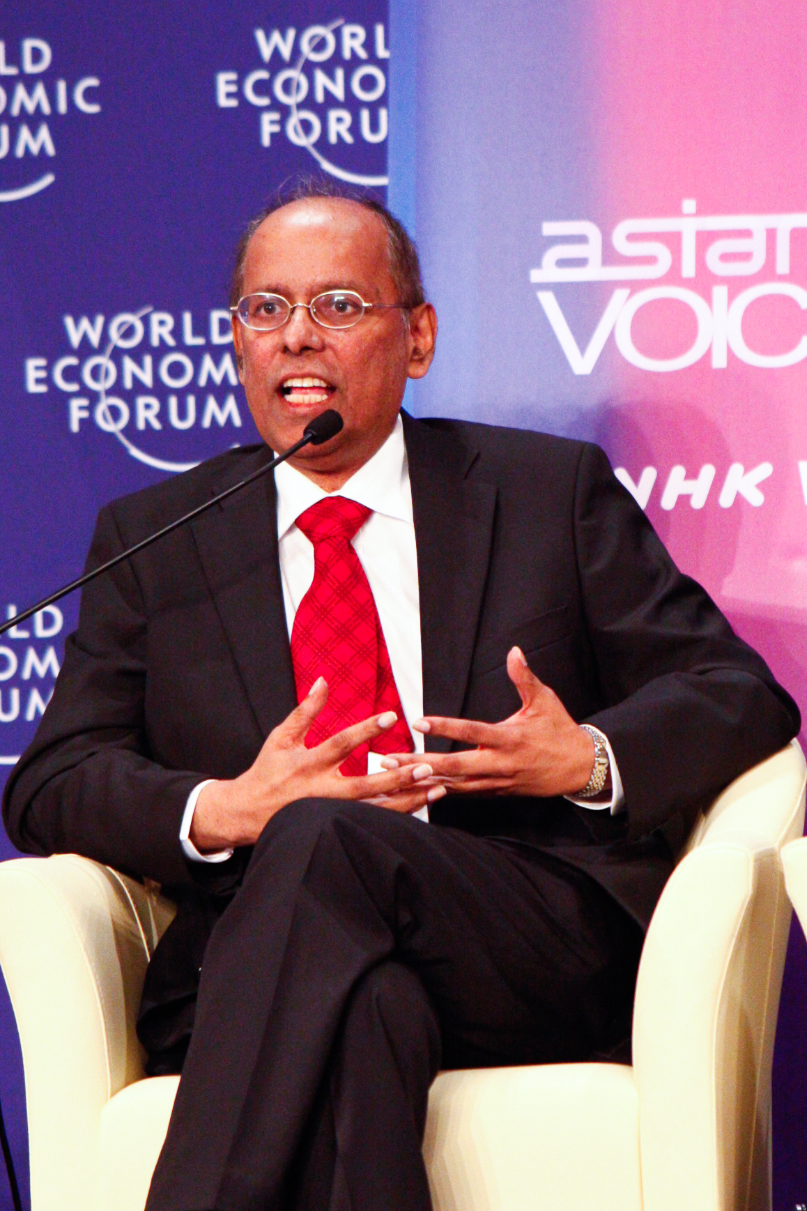 HO CHI MINH CITY/VIETNAM, 6 JUN 10 - Balaji Sadasivan, Senior Minister of State for Foreign Affairs of Singapore captured during the World Economic Forum on East Asia in Ho Chi Minh City, Vietnam, June 6, 2010. Copyright World Economic Forum ( Sikarin Thanachaiary.